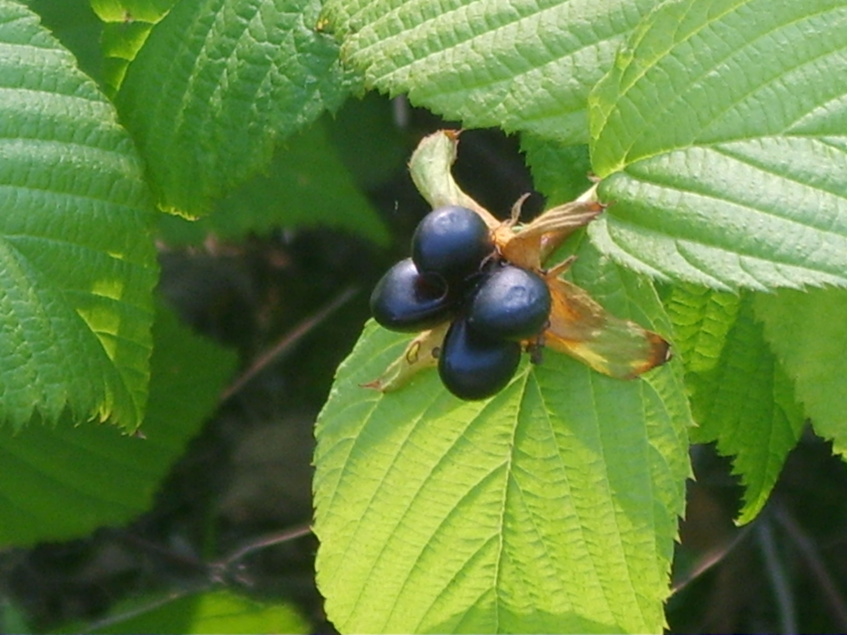 Rhodotypos scandens in Gyeongbokgung palace, Korea